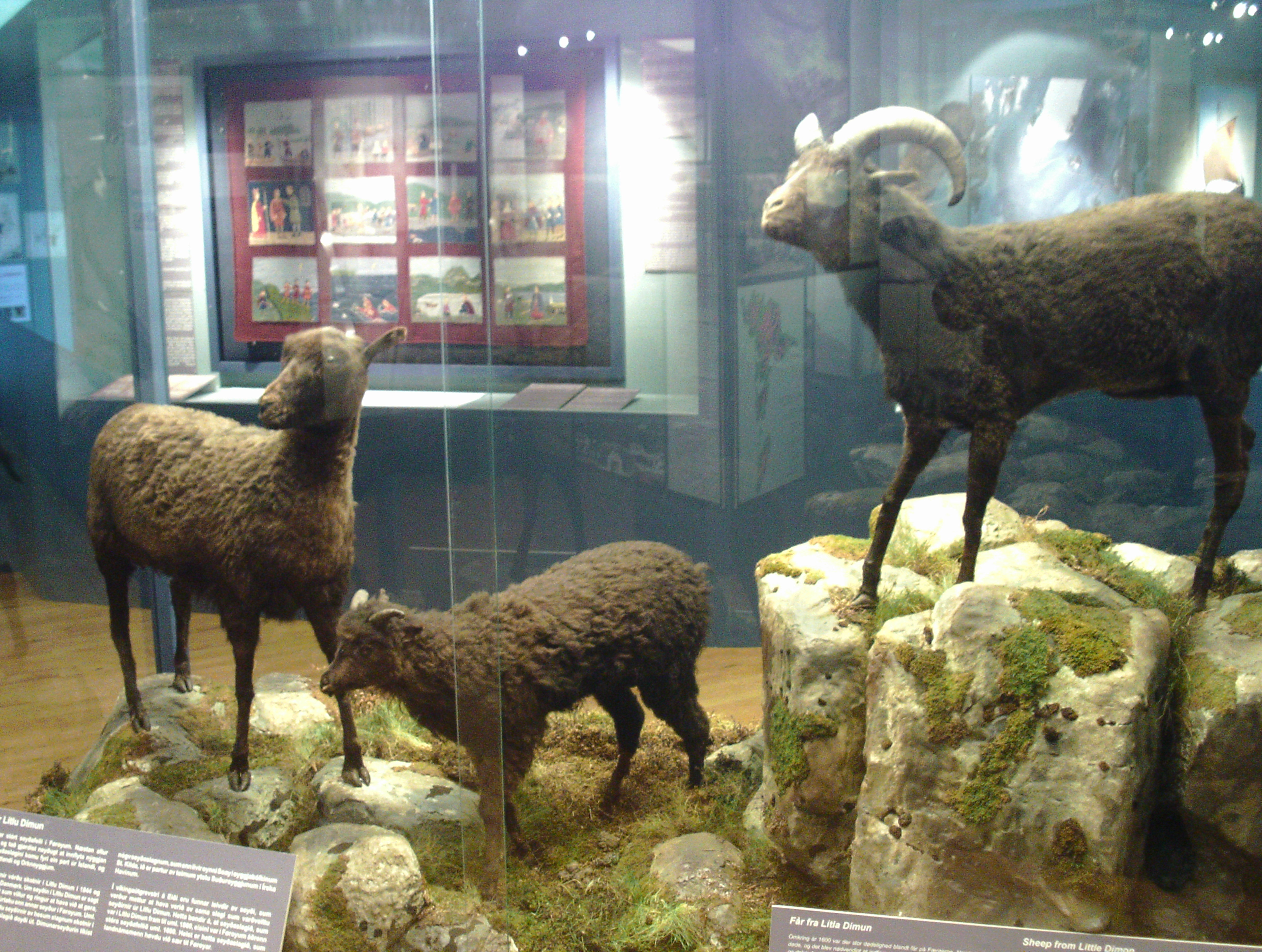 Three stuffed mid-19th century sheep from Lítla Dímun at the national museum in Tórshavn. This breed is now extinct.